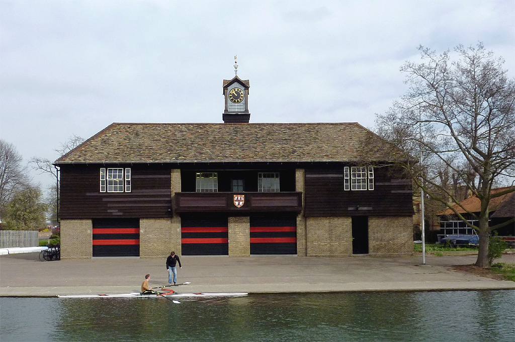 Boathouse by the River Cam in Cambridge